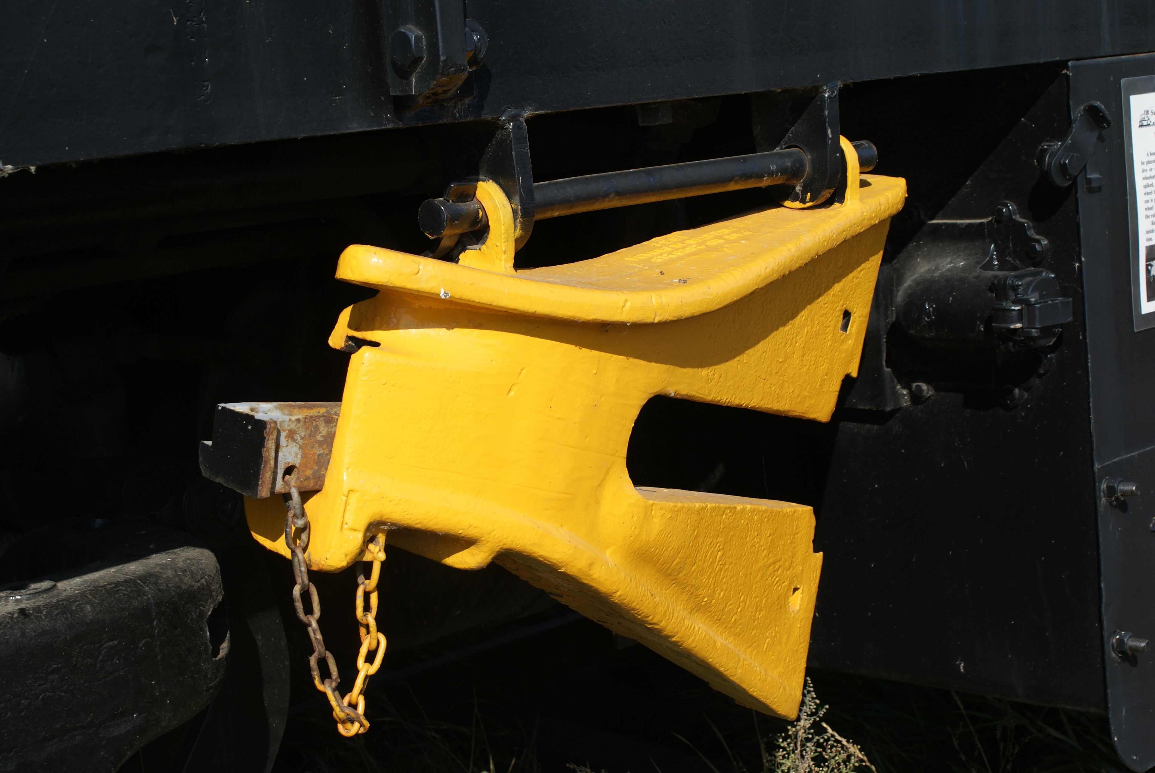 Rerail Frog Saskatchewan Railway Museum Canadian Pacific Railway S3 diesel electric locomotive #6568 constructed in 1957 by Montreal Locomotive Works. According to the SRM, it has a 660 horsepower McIntosh and Seymore 539 diesel engine which operates a General Electric generator. It generates 600 volts direct current which turns four traction motors driving each axle. This light switcher locomotive was used in Sutherland CPR train yards.